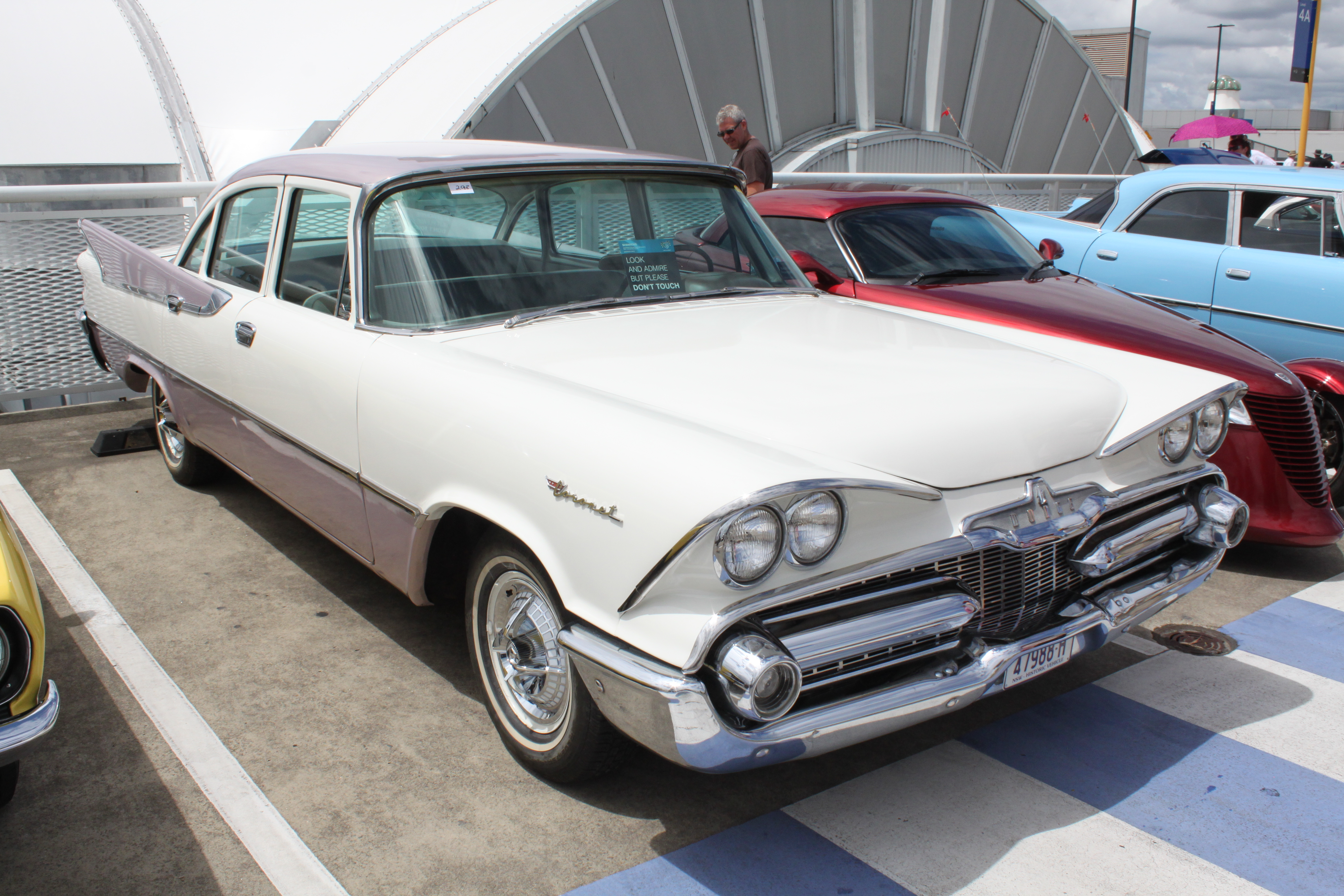 All American Car Show, Castle Hill, NSW January 2016